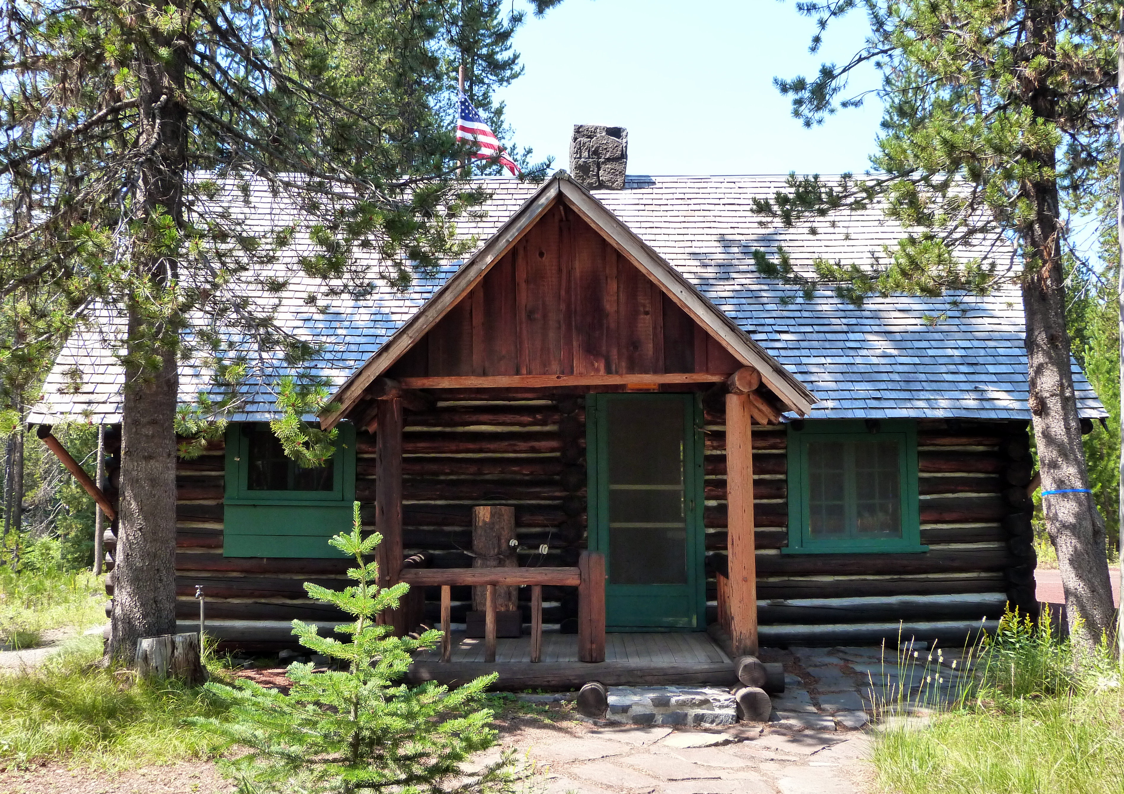 The historic Elk Lake Guard Station (built 1929), located on Forest Road 46 near Elk Lake in Deschutes National Forest, Oregon, United States, is listed on the US National Register of Historic Places.